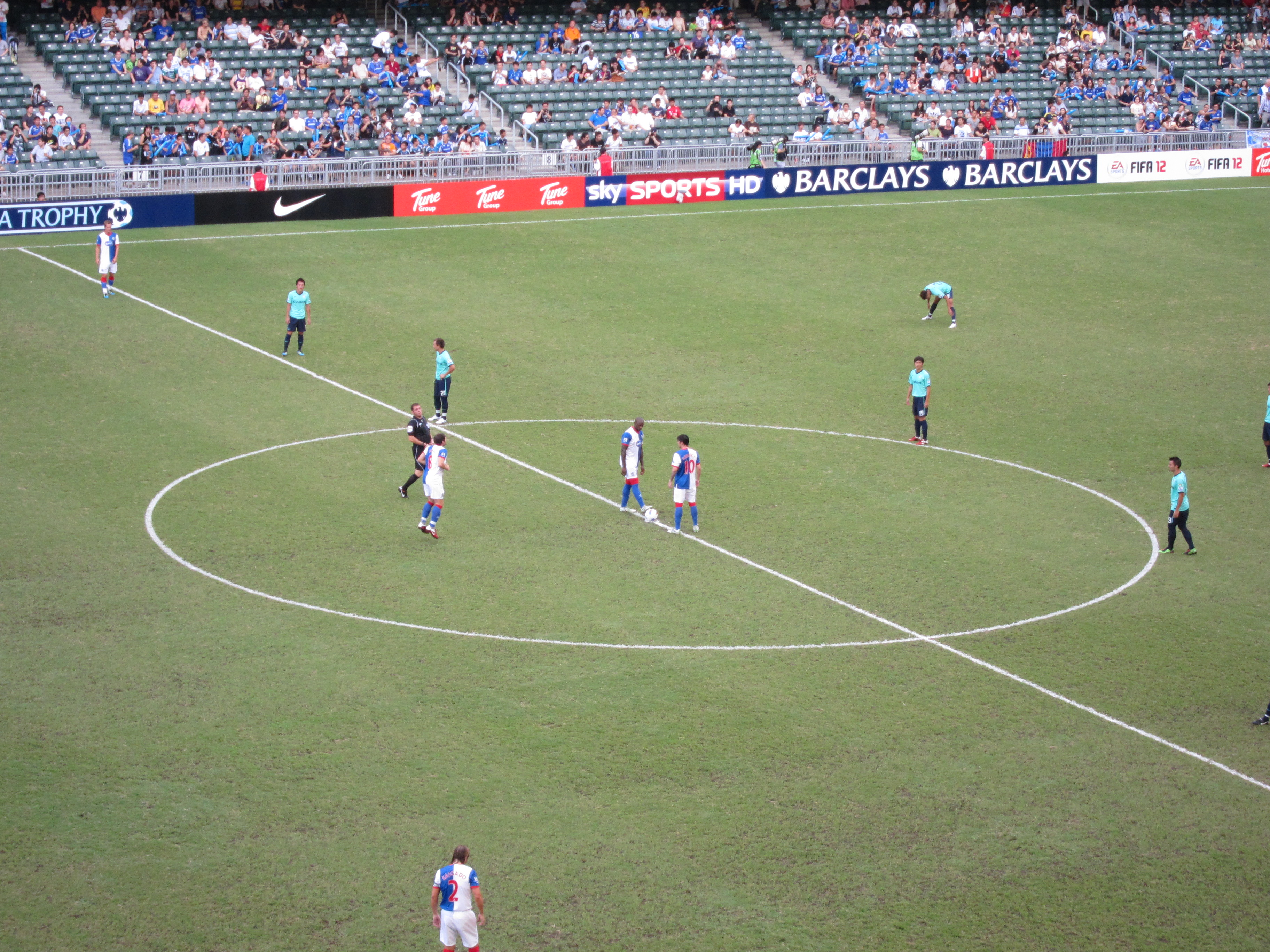 2011 Barclays Asia Trophy Final - 3rd Place match Kit Chee vs Blackburn Rovers 中文（香港）: 2011年巴克萊亞洲錦標賽決賽 - 季軍戰 傑志 對 布力般流浪